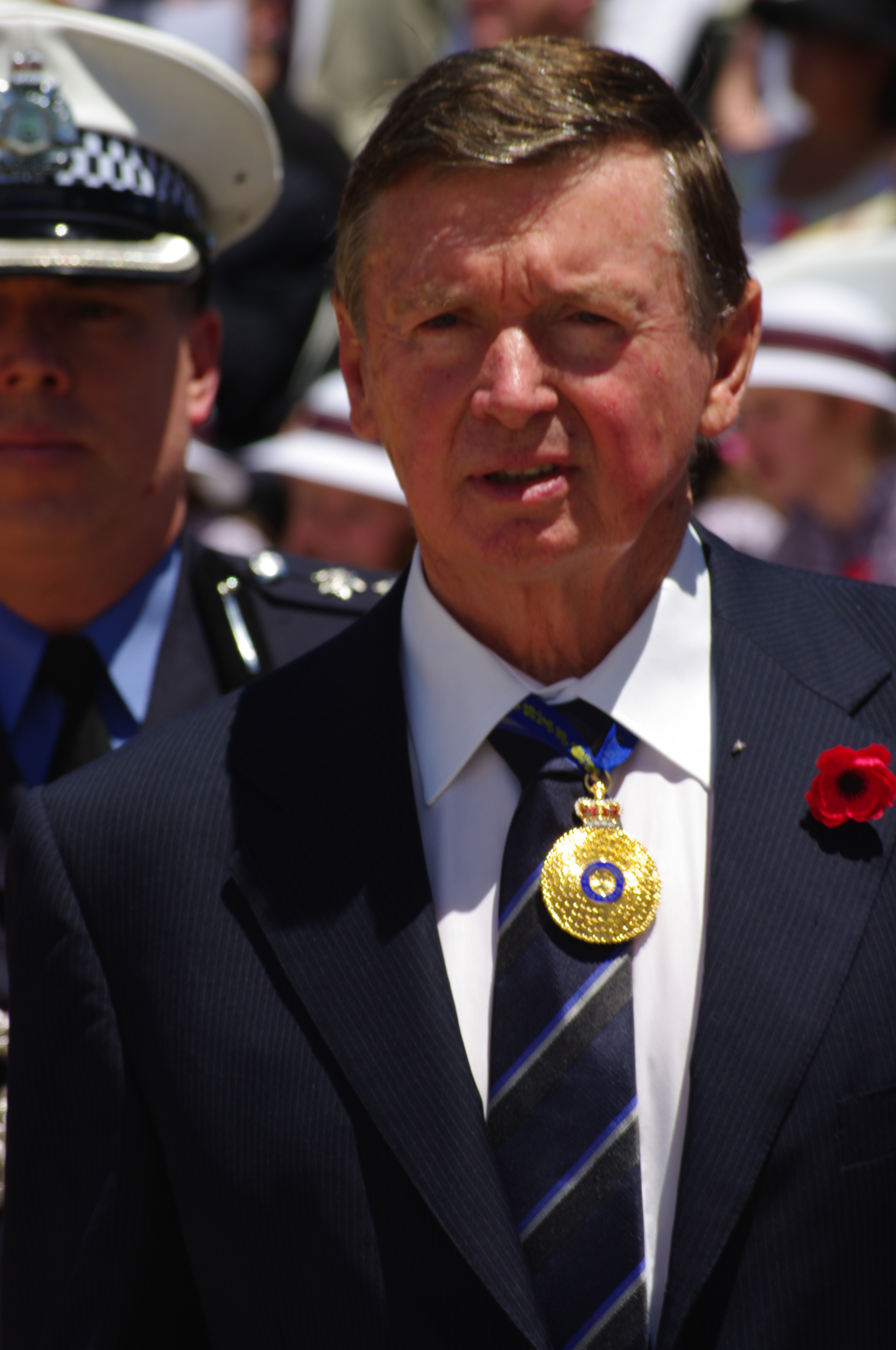 Remembrance Day service November 11 2011 Kings Park, Western Australia Governor of Western Australia, Malcolm McCusker